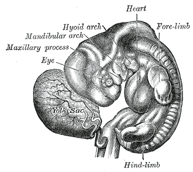 Human embryo from thirty-one to thirty-four days. (His.)